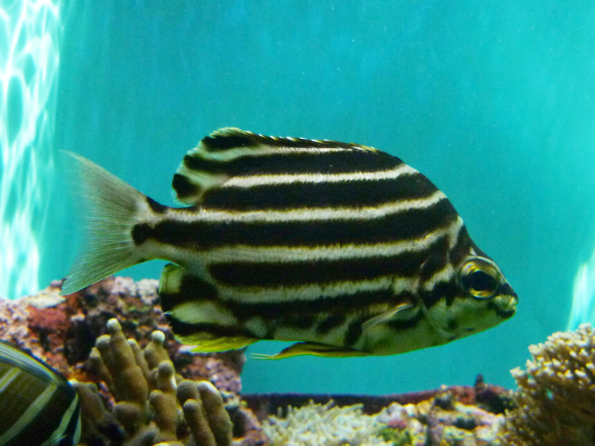 Stripey (Microcanthus strigatus) in Waikiki Aquarium